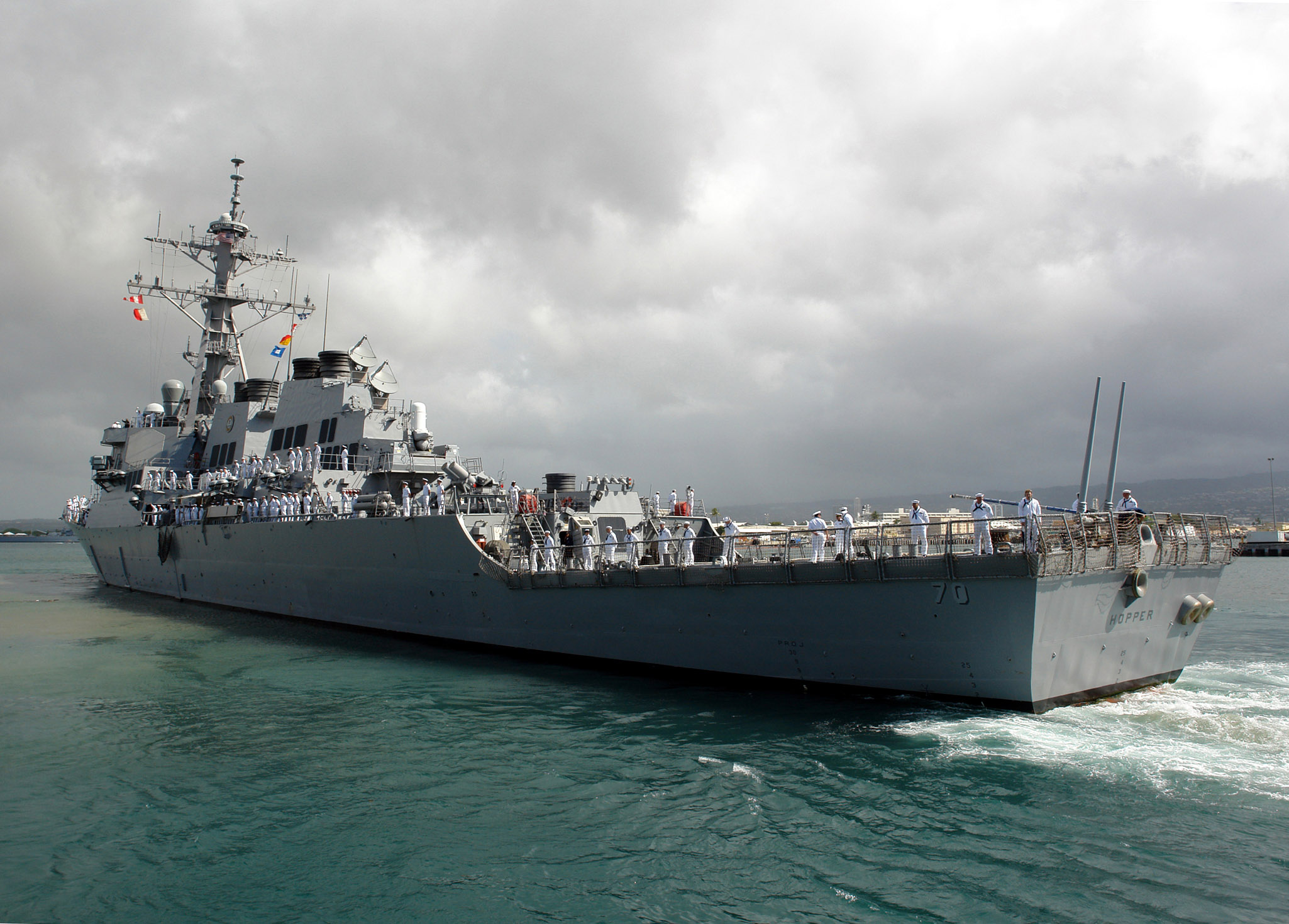 060505-N-9643K-007 Pearl Harbor, Hawaii - Guided-missile destroyer USS Hopper (DDG 70) departs Pearl Harbor for a four-month cruise to the U.S. Navy's 7th Fleet area of operation. Hopper will travel to various locations in the Western Pacific to take part in the Cooperation Afloat Readiness and Training (CARAT) 2006 exercise. CARAT is a regularly scheduled series of military training exercises with Singapore, Thailand, Malaysia, Brunei and the Philippines, designed to enhance interoperability of the respective sea services.